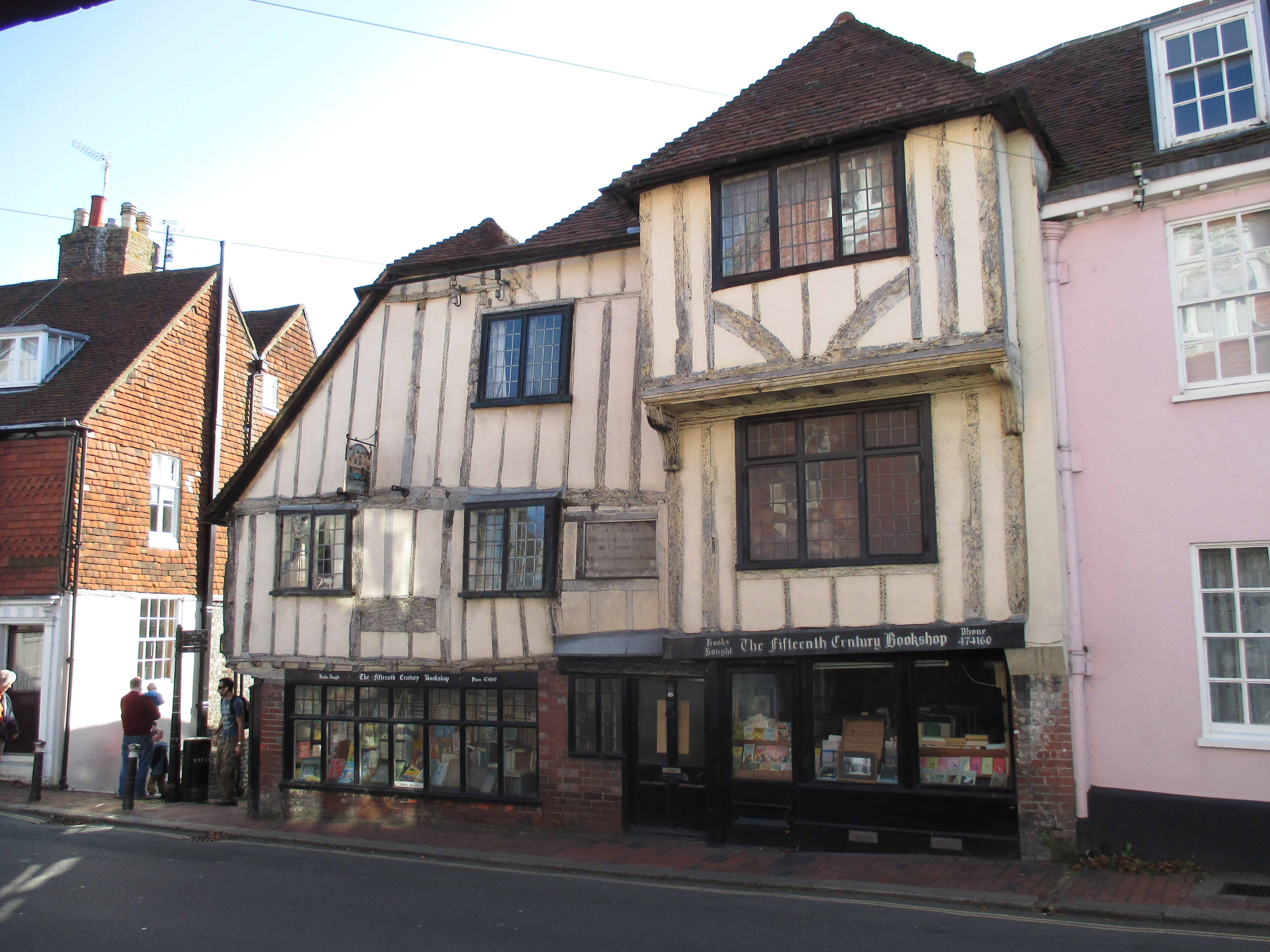 The Fifteenth Century Bookshop, 99–100 High Street, Lewes, West Sussex, photographed from the north-west.